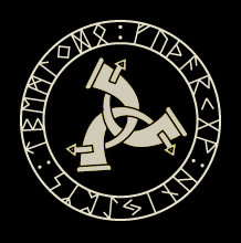 Logo of the Rune-Gild, an initiatory organisation founded by Stephen Flowers, teaching "Esoteric Runology" or "Odianism", an esoteric variant of Germanic Heathenism.